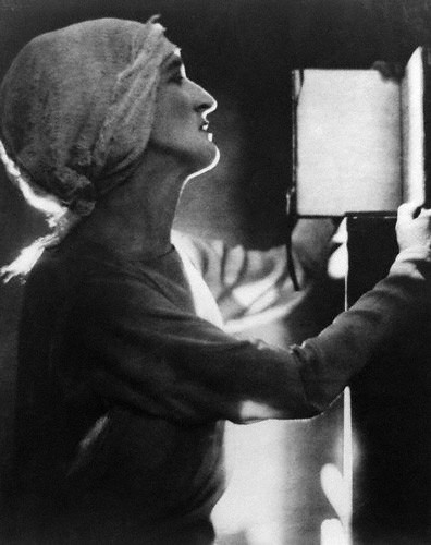 Margaret Emma Alice ('Margot') Asquith (née Tennant), Countess of Oxford and Asquith (1864-1945)